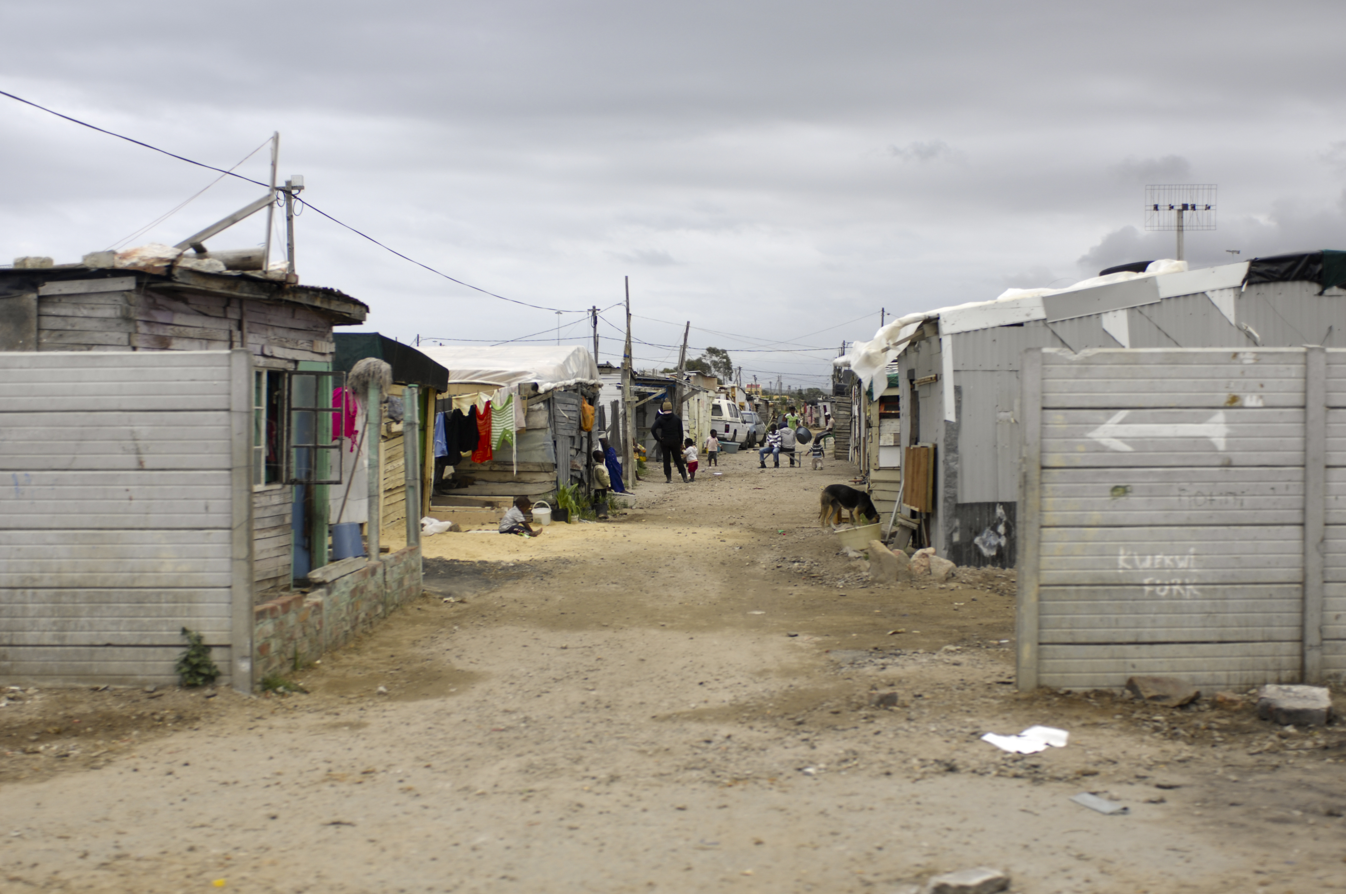 Images of the Zwelihe Township,[1][2] located within the city limits of Hermanus, in the Western Cape province of South Africa.